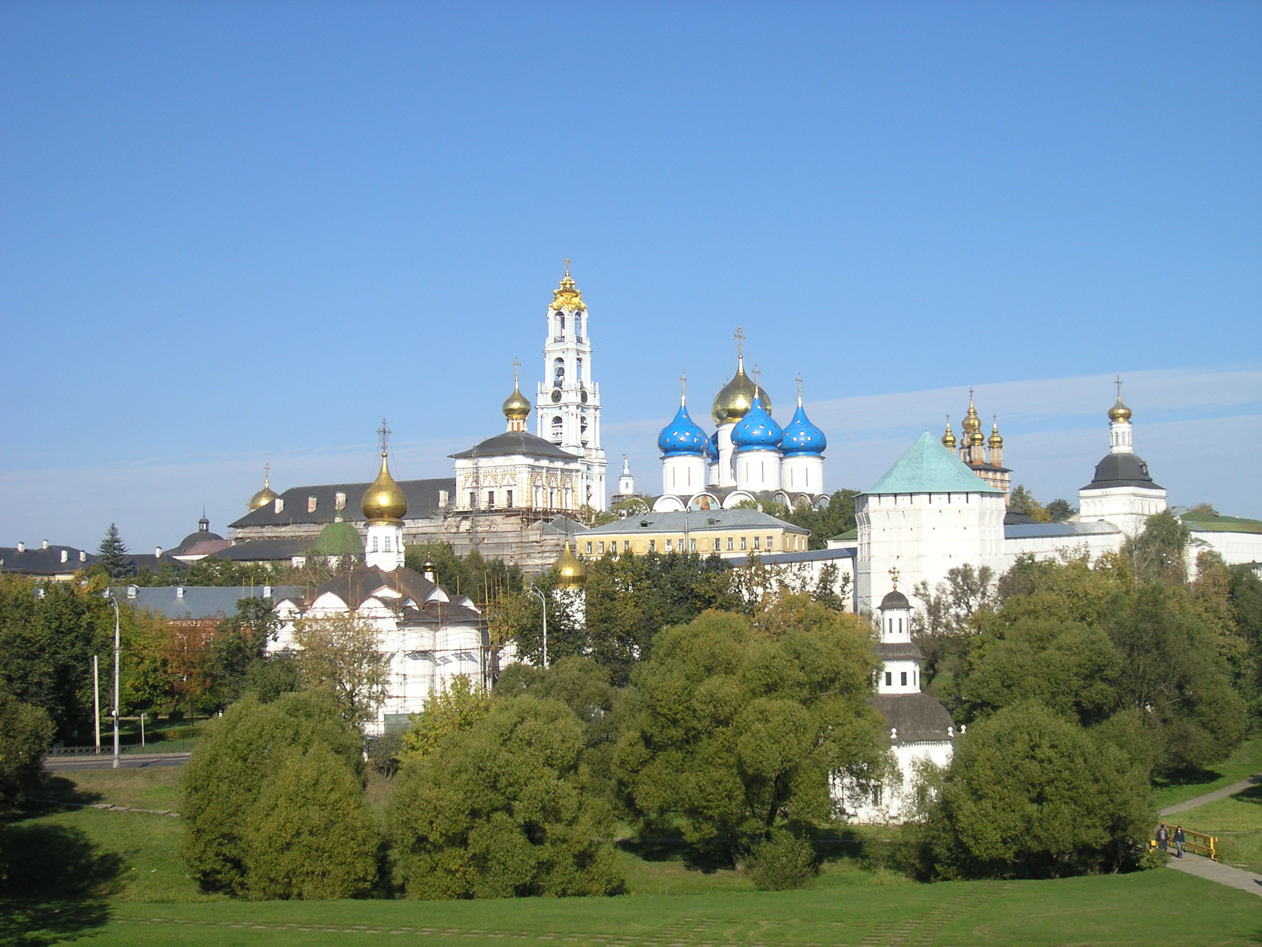 Troitse-Sergiyeva Lavra panorama. Sergiev Posad, Russia.